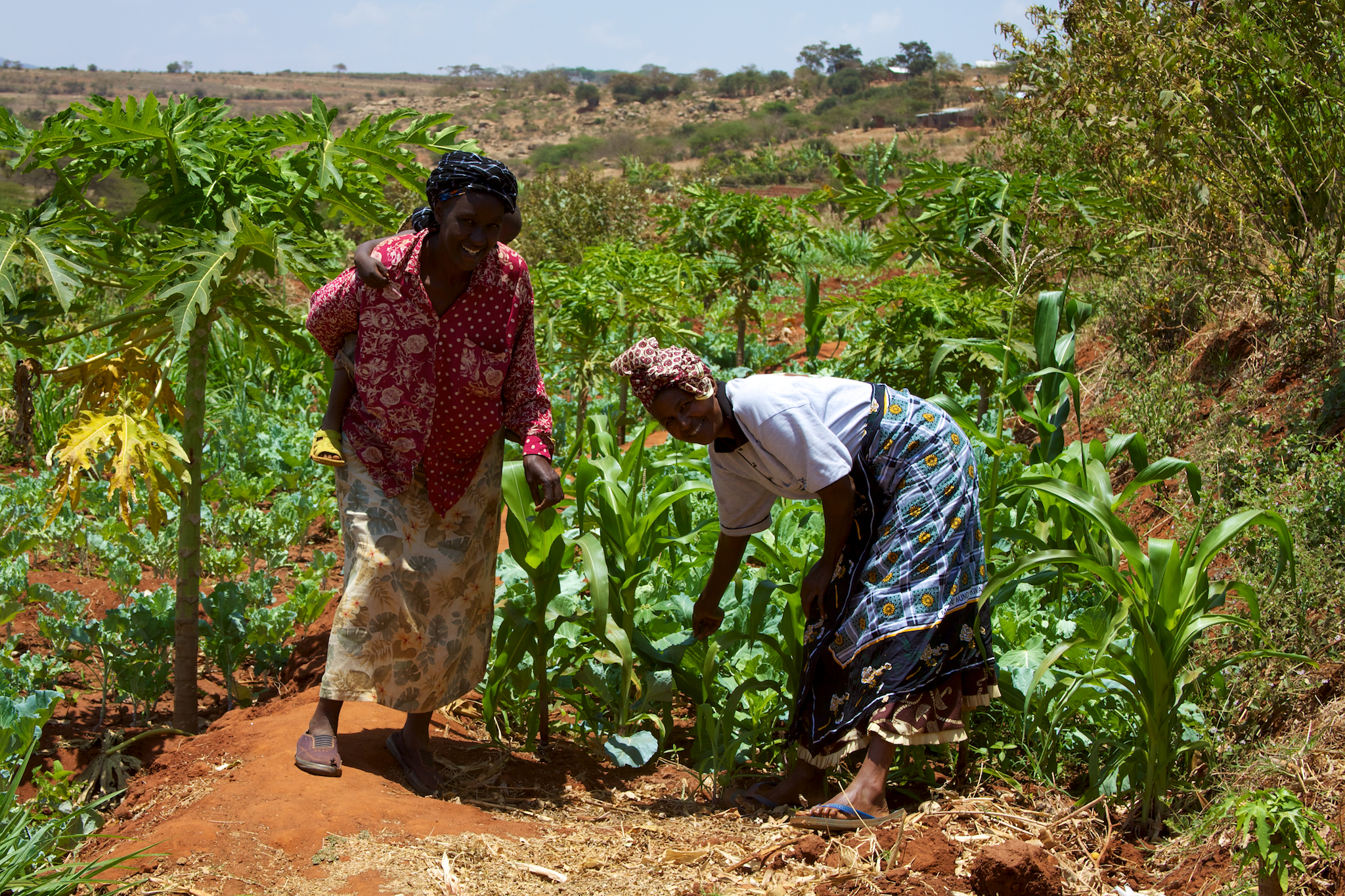 A 28-member farming group in Machakos, Kenya farms a 4-acre plot where they grow oranges, avocado, vegetables, maize.